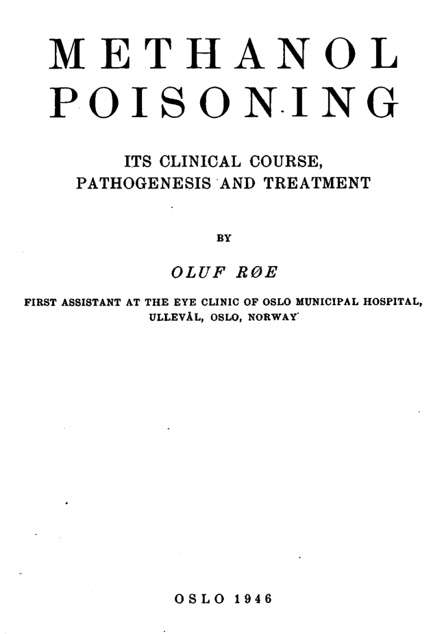 Front page of 'Methanol Poisoning', published in Oslo in 1946